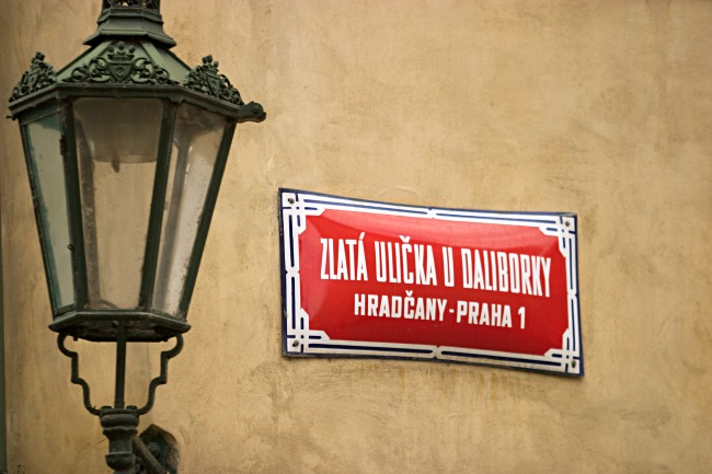 Praha street sign. Street sign from the Prague castle area, Praha.